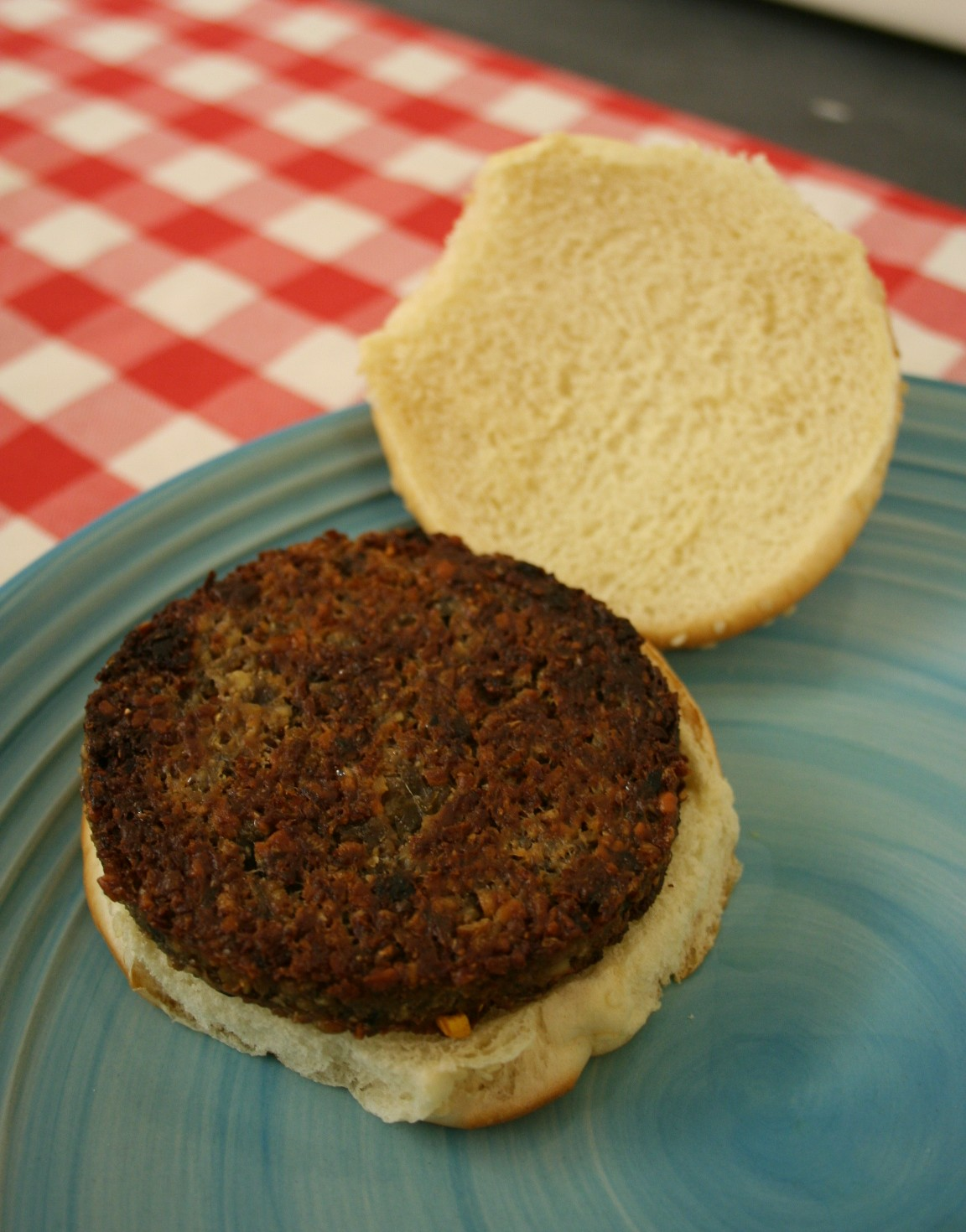 A veggie burger on a plate